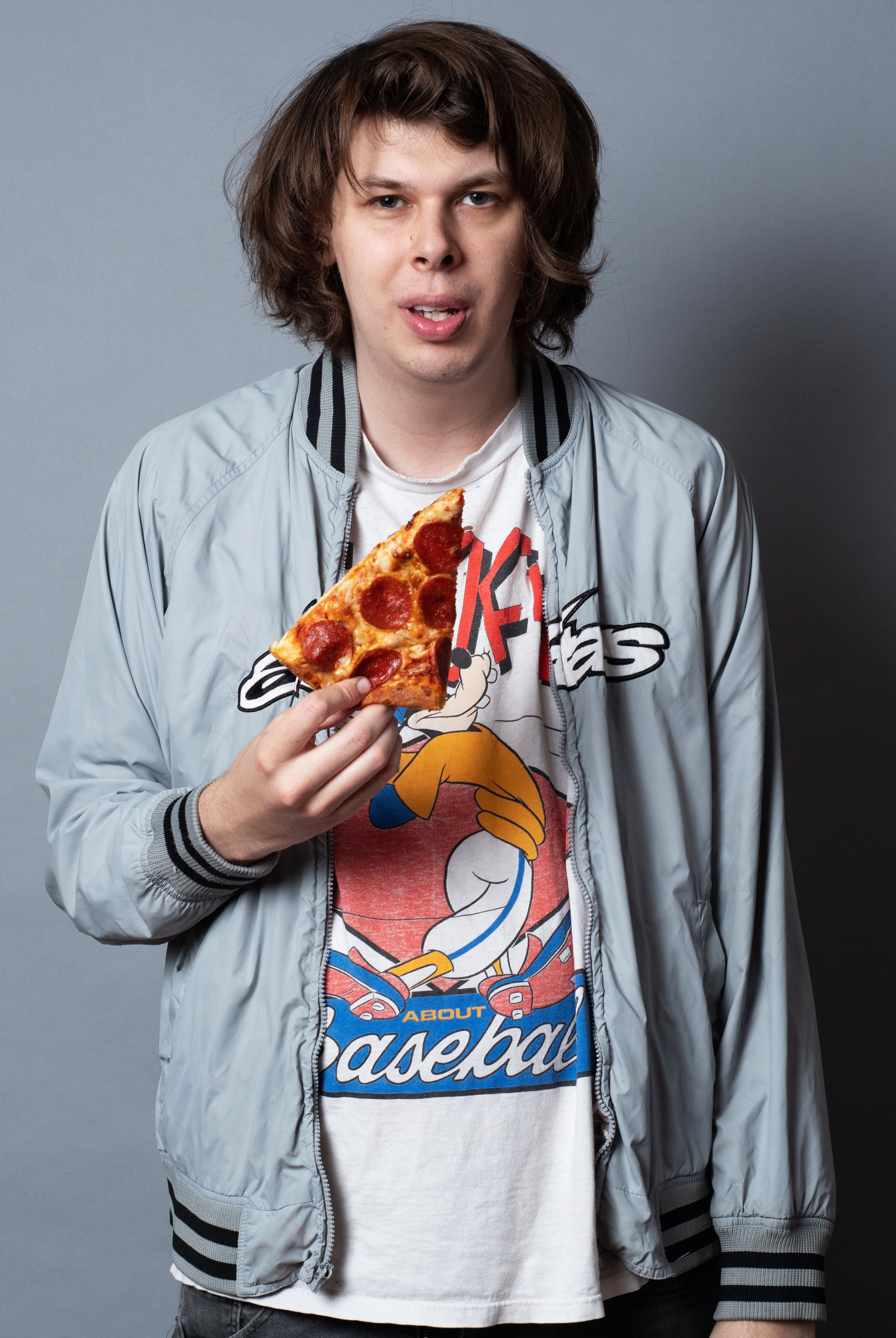 Matty Cardarople